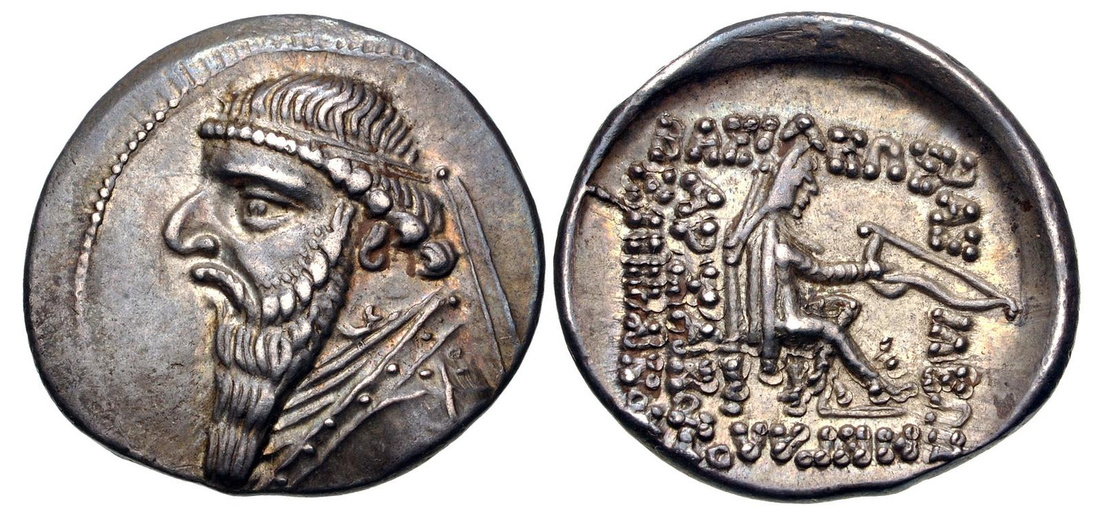 Coin of Mithridates II of Parthia, Rhages mint.